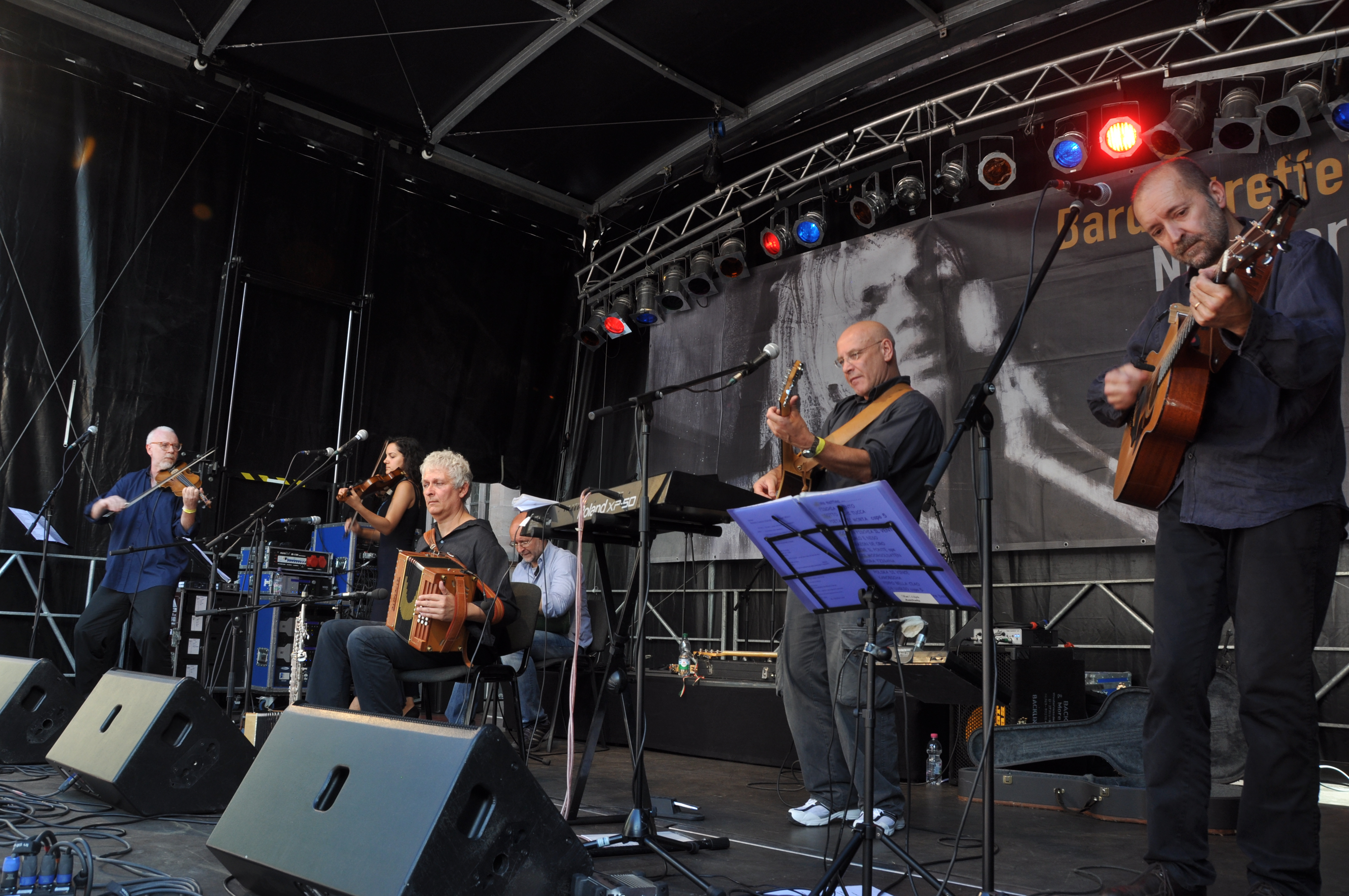 Barabàn (Italy), appearance at the 39th music festival "Bardentreffen" 2014 in Nuremberg, Germany, Sebald square stage